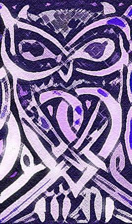 Celtic owl pattern